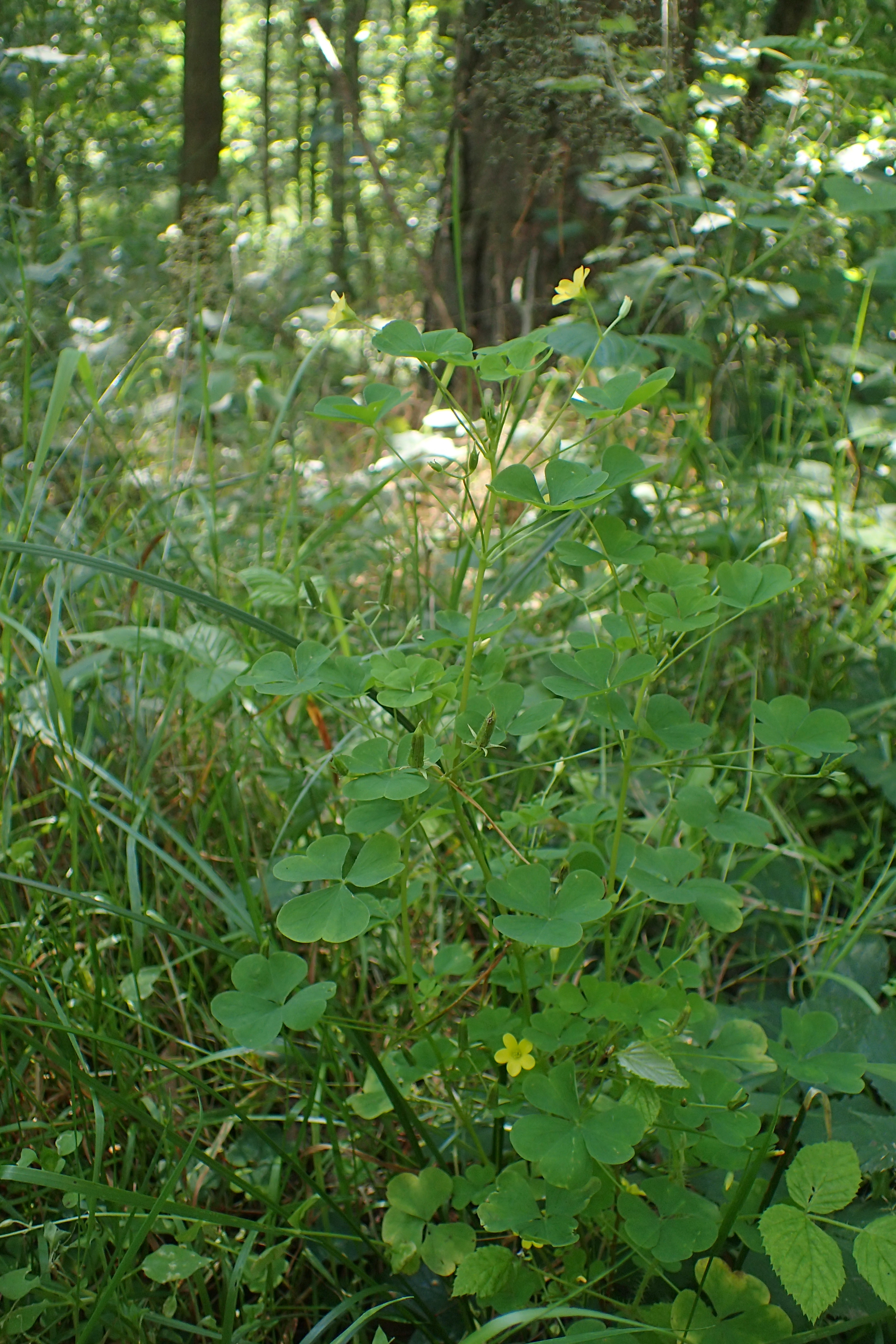 Oxalis stricta in forest, S from Kołobrzeg, NW Poland